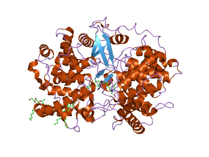 Cartoon representation of the molecular structure of protein registered with 1w6j code.